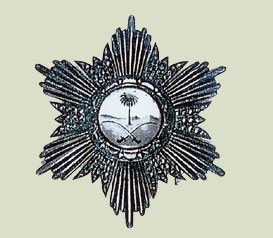 King saud star